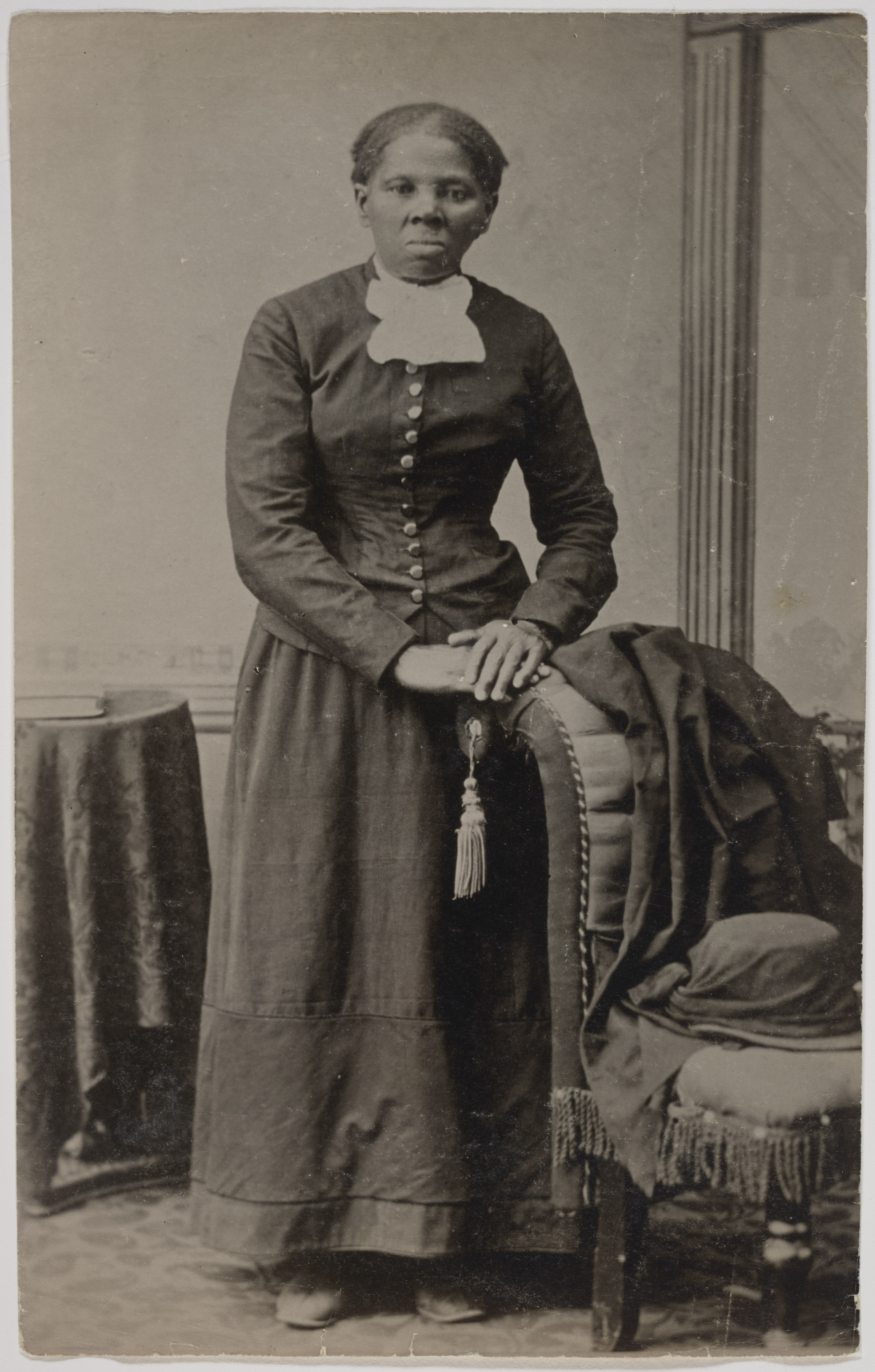 Lindsley, Harvey B.,, 1842-1921,, photographer. [Portrait of Harriet Tubman] [Auburn, N.Y.] : [Harvey Lindsley], [taken between 1871 and 1876?, printed between 1895 and 1910] 1 photograph : matte collodion print ; sheet 13.7 x 8.7 cm. Notes: Photograph shows a full-length portrait of Harriet Tubman (1820?-1913) looking directly at the camera with folded hands resting on back of an upholstered chair. Title devised by Library staff. Print appears to be a copy of a photo taken by Harvey Lindsley earlier in Harriet Tubman's life and printed later. Print was loosely inserted after the last page of the Emily Howland photograph album. DLC Please use the digital image in the online catalog to preserve to original photograph. Collection of the National Museum of African American History & Culture shared with the Library of Congress. Purchased by the Library of Congress and the Smithsonian National Museum of African American History and Culture; Swann Galleries; 2017. Formerly owned by Emily Howland. DLC Forms part of the Emily Howland photograph album. Subjects: Tubman, Harriet,--1820?-1913. Howland, Emily,--1827-1929--Friends & associates. African Americans--Women--New York (State)--New York--1870-1880. Abolitionists--New York (State)--New York--1870-1880. Format: Portrait photographs--1870-1880. Collodion printing-out paper prints--1890-1910. Repository: Library of Congress, Prints and Photographs Division, Washington, D.C. 20540 USA, Part Of: Emily Howland photograph album (DLC) 2017656258 Higher resolution image is available (Persistent URL): Call Number: LOT 15020 [item]